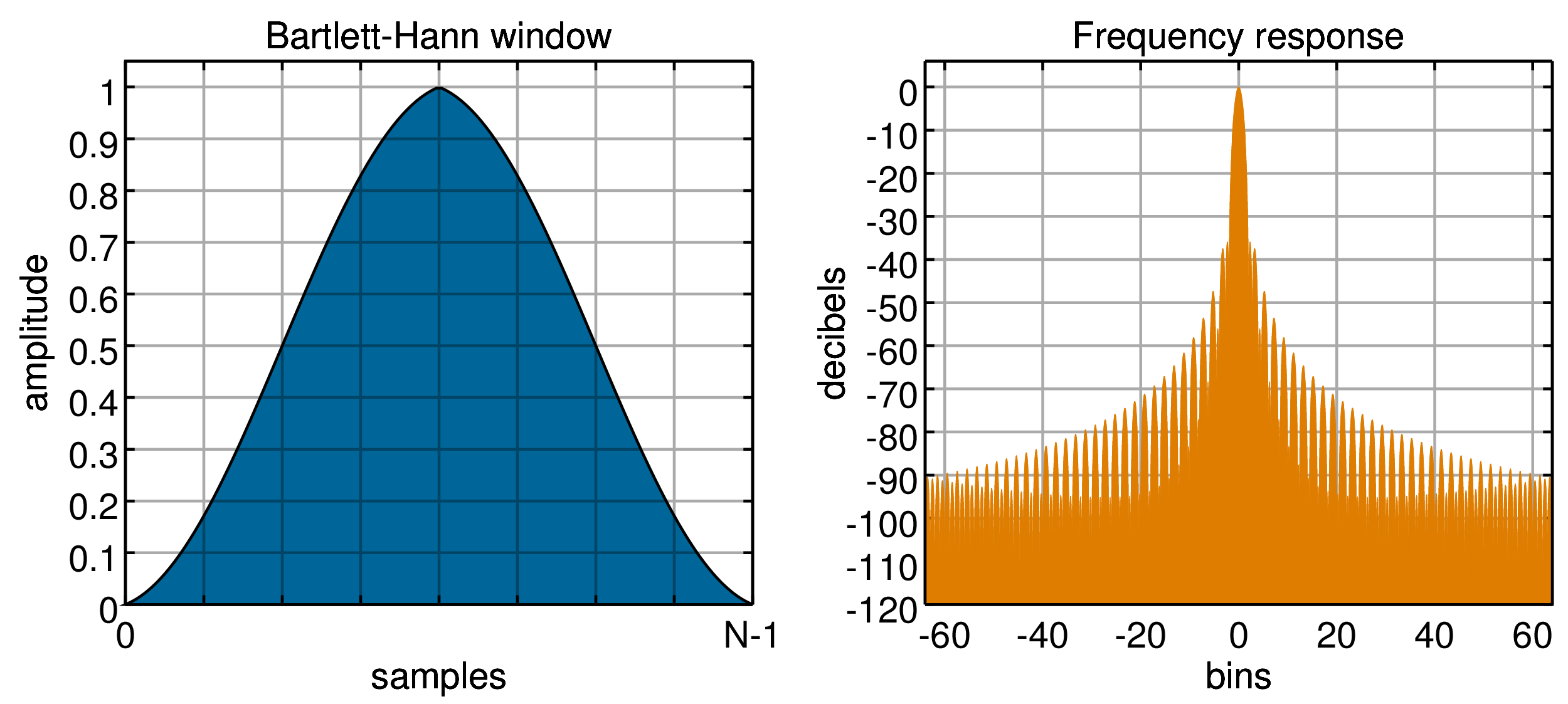 Bartlett-Hann window and frequency response